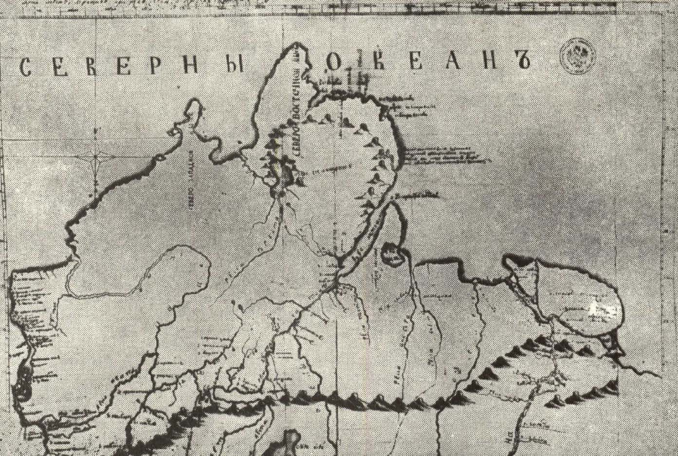 This is Map of Taymyr Peninsula was made by Russian Arctic explorer Khariton Laptev in 1742 year. This map was first publication in «Записки гидрографического департамента, т. IX. СПб., 1851, с. 59».